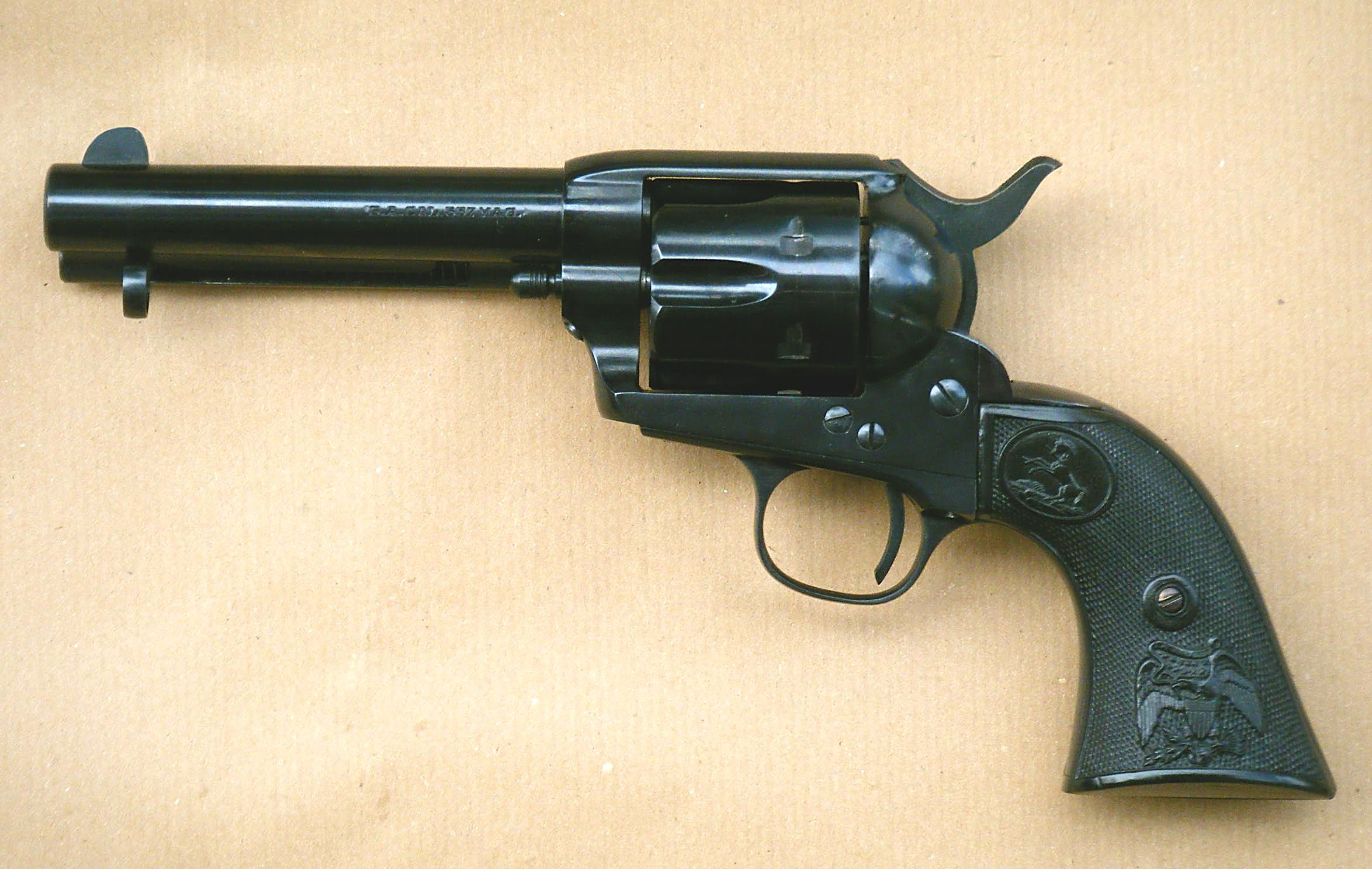 Colt S.A.A. 1873 (A. Uberti made)